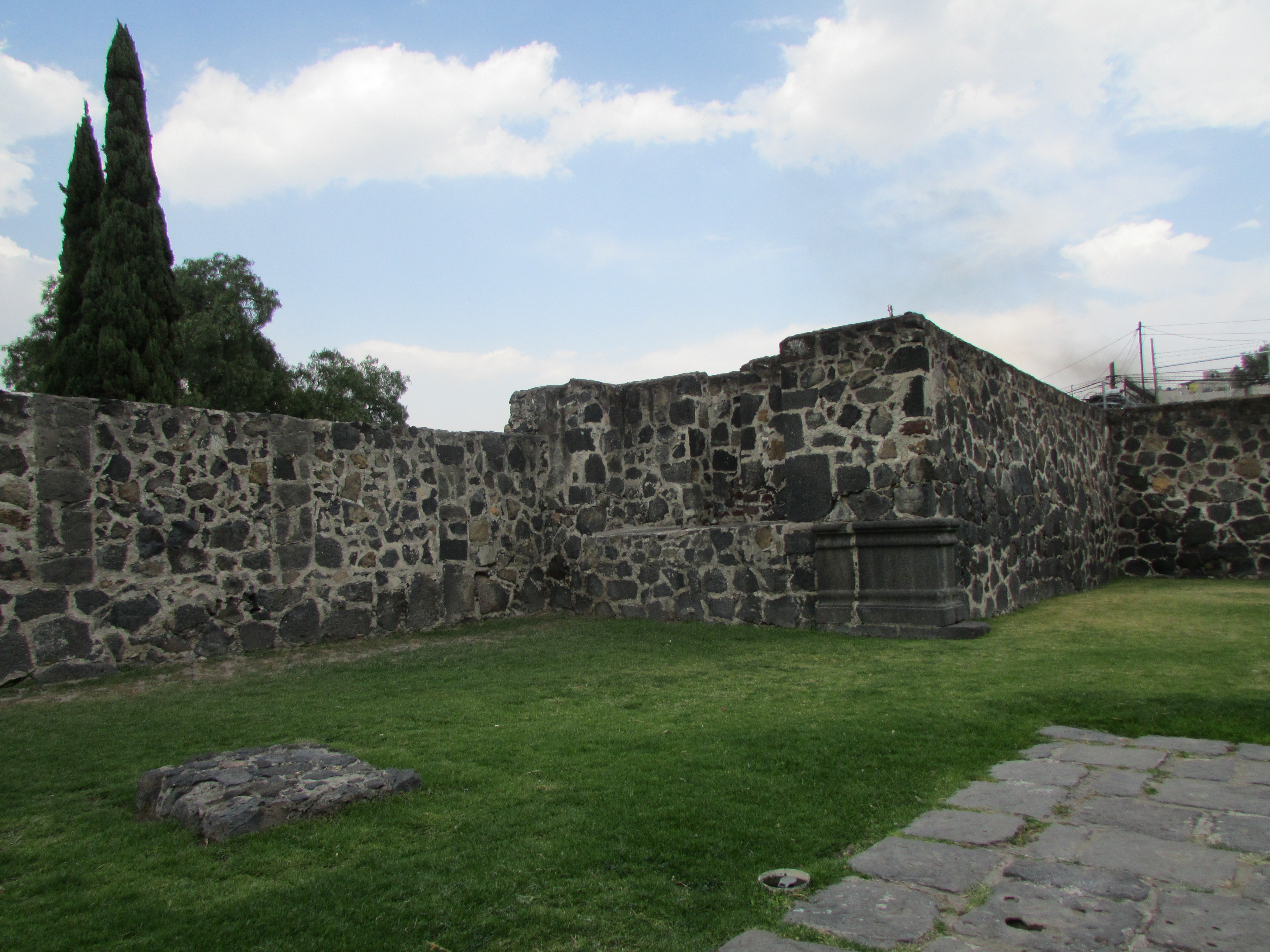 Walls of the ancient mill. San Juan Evangelista ex convent at Culhuacan